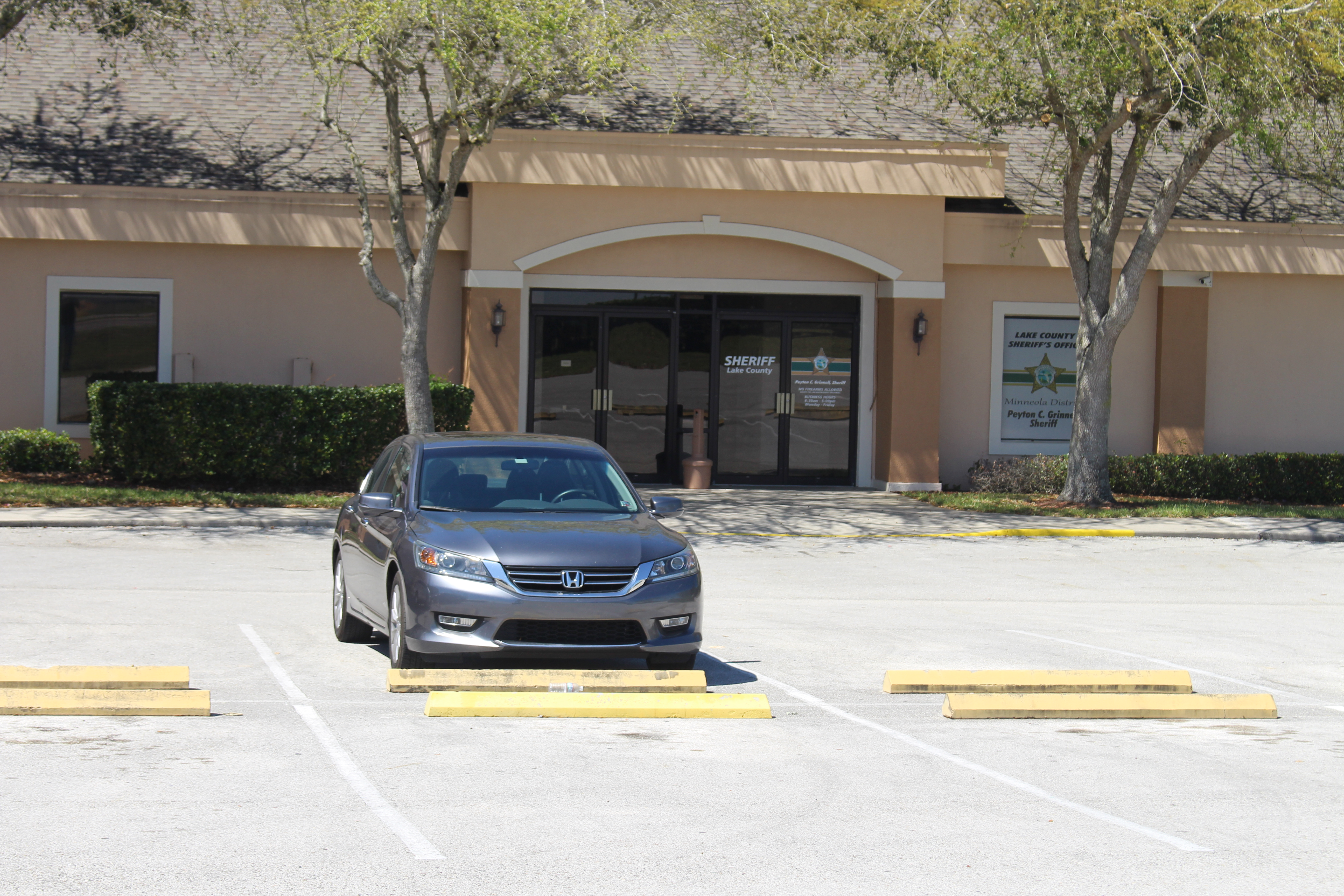 Minneola, Lake County, Florida